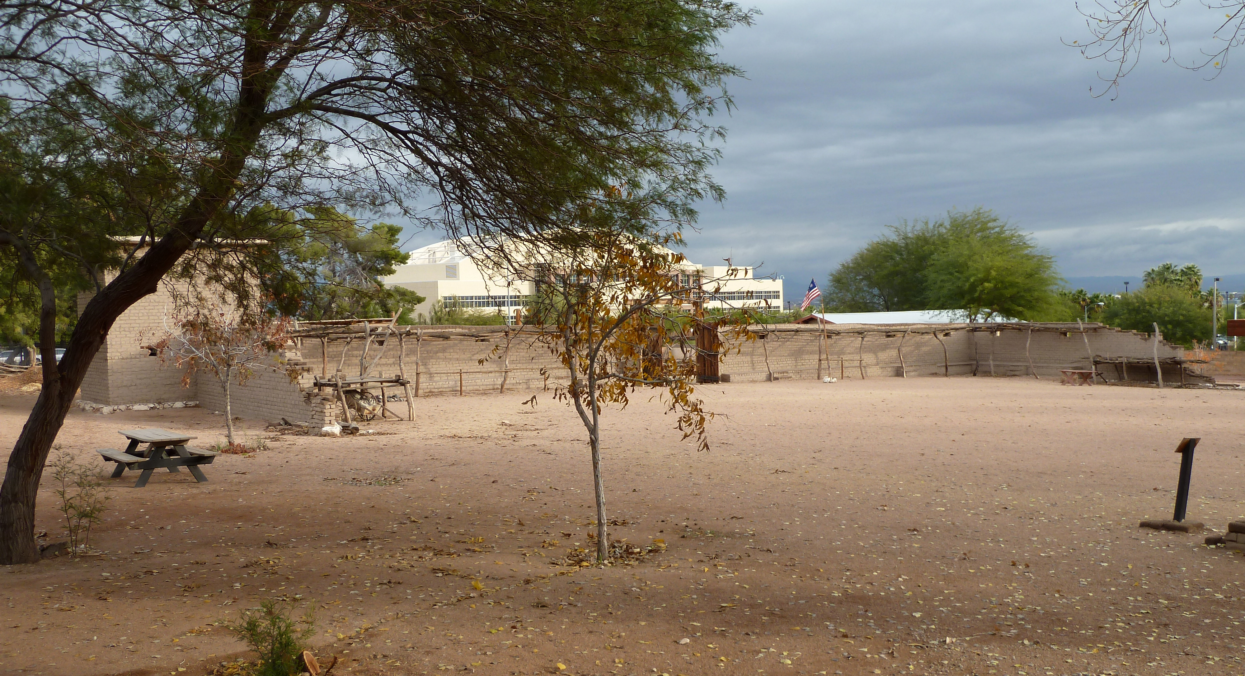 A view of the Old Las Vegas Mormon Fort State Historic Park, Las Vegas, Nevada, USA.